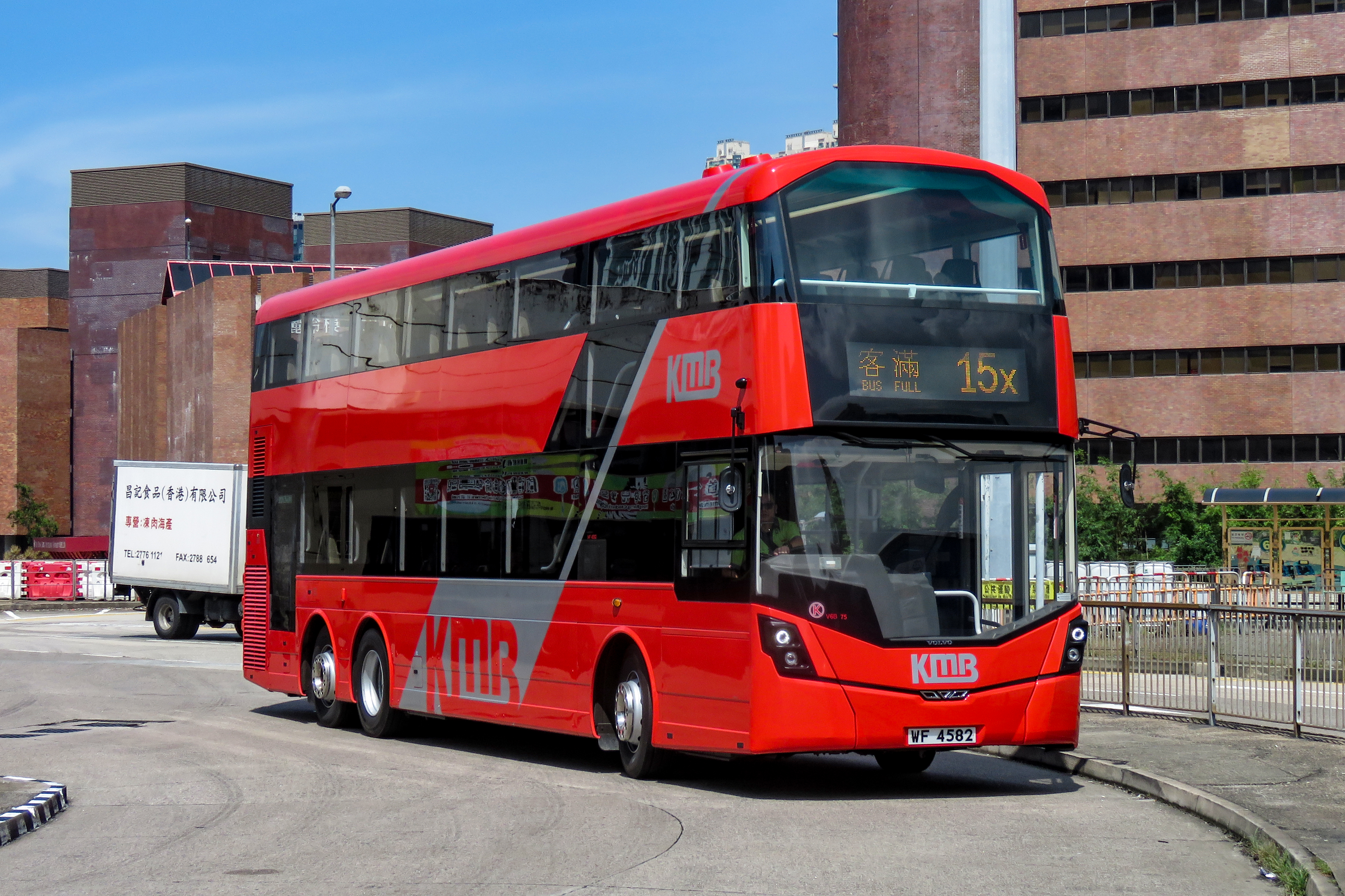 Fresh B8L...